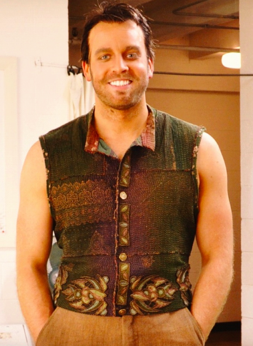 Christopher Magiera as Zurga backstage at Santa Fe Opera, 2012